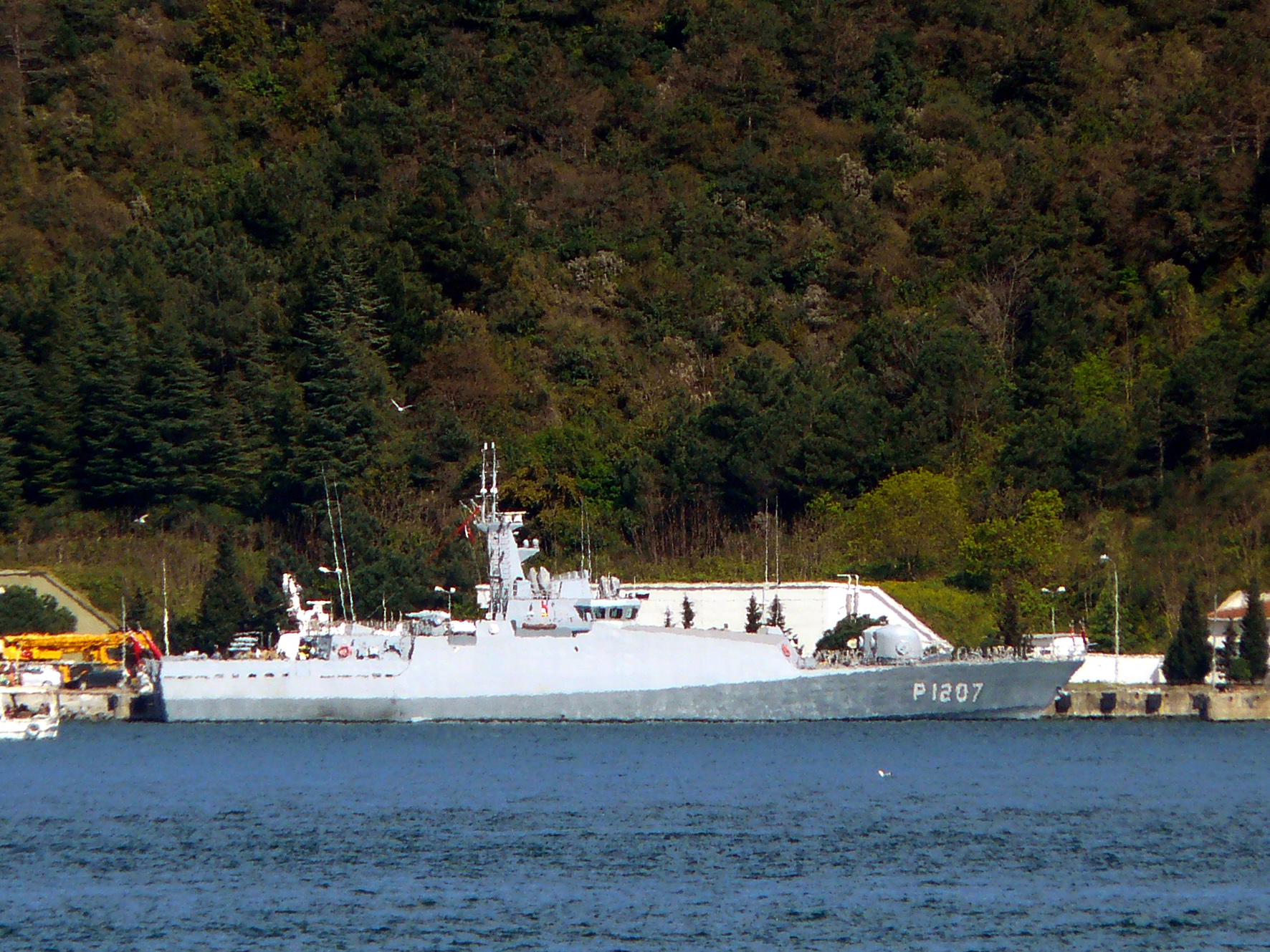 Turkish Patrol Boat: TCG Tekirdağ (P-1207)